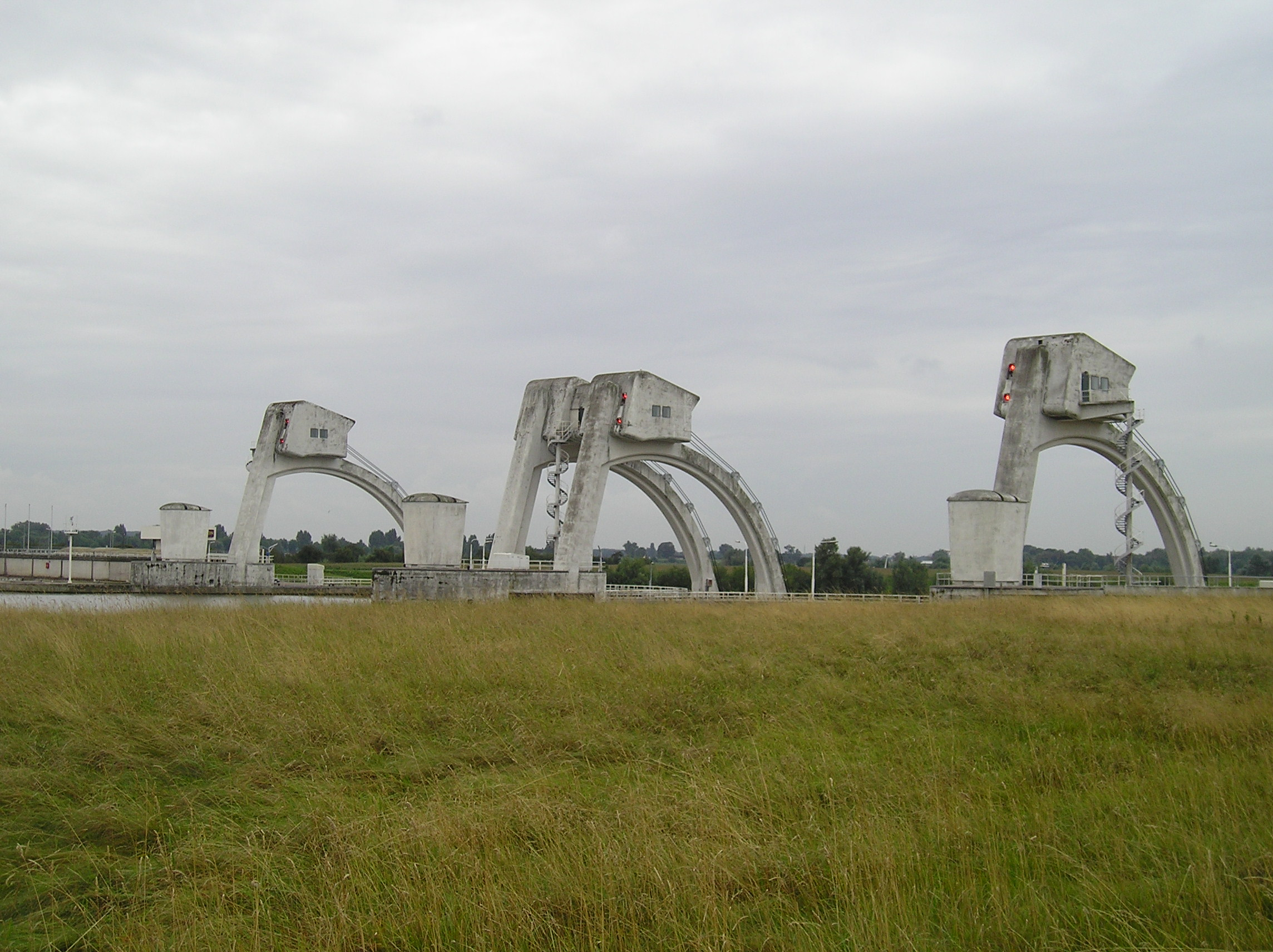 Weir Amerongen